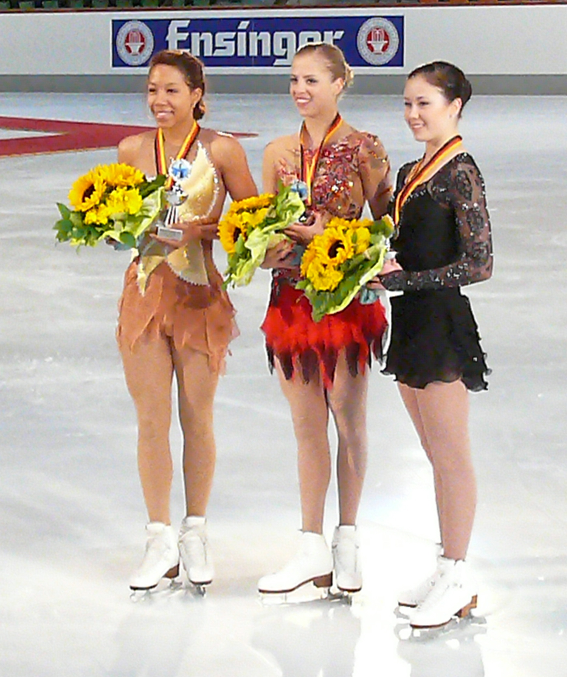 Ceremony Ladies at the Nebelhorn Trophy 2007 in Oberstdorf/Germany; from left to right: Megan Williams-Stewart (USA), Carolina Kostner (ITA), Laura Lepistö (FIN)